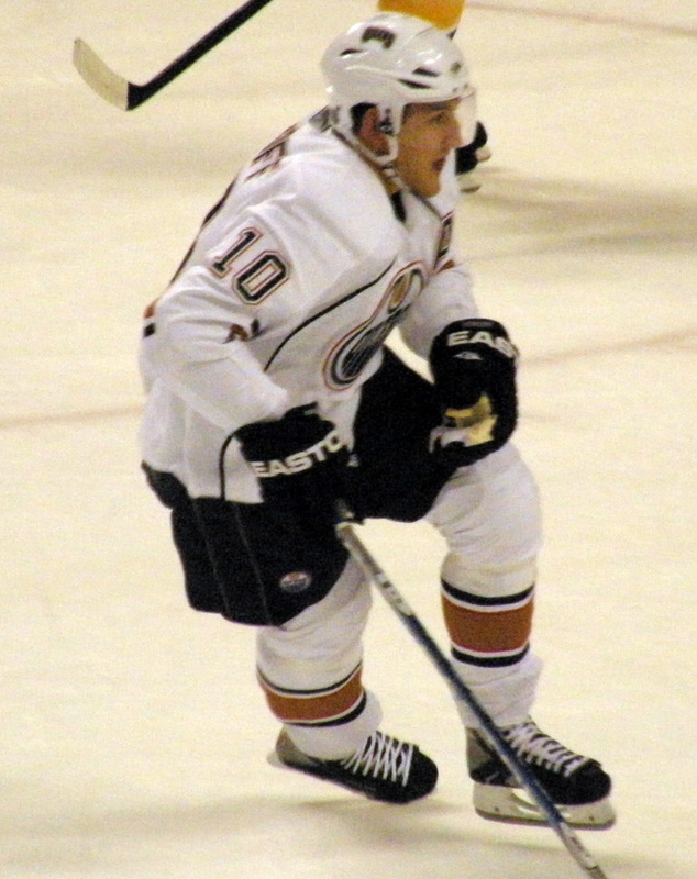 10 Shawn Horcoff, Edmonton Oilers, Center